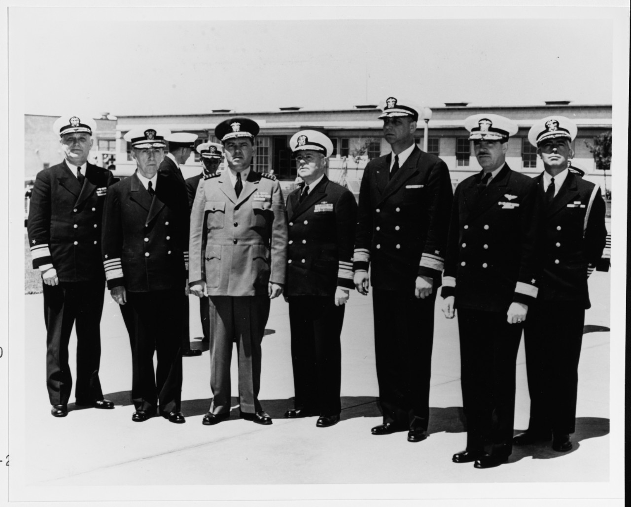 Naval Supply Depot, Clearfield, Utah. Senior officers pose during an inspection visit by Admiral Royal Eason Ingersoll, Commander Western Sea Frontier, June 1945. Present are (left to right): Rear Admiral Glenn B. Davis, Admiral Ingersoll, Captain J.H. Skillman (Supply Corps), Vice Admiral John W. Greenslade, Rear Admiral T.E. Hipp (Supply Corps), Commodore P.E. Pihl, Commander M.L. Smith.